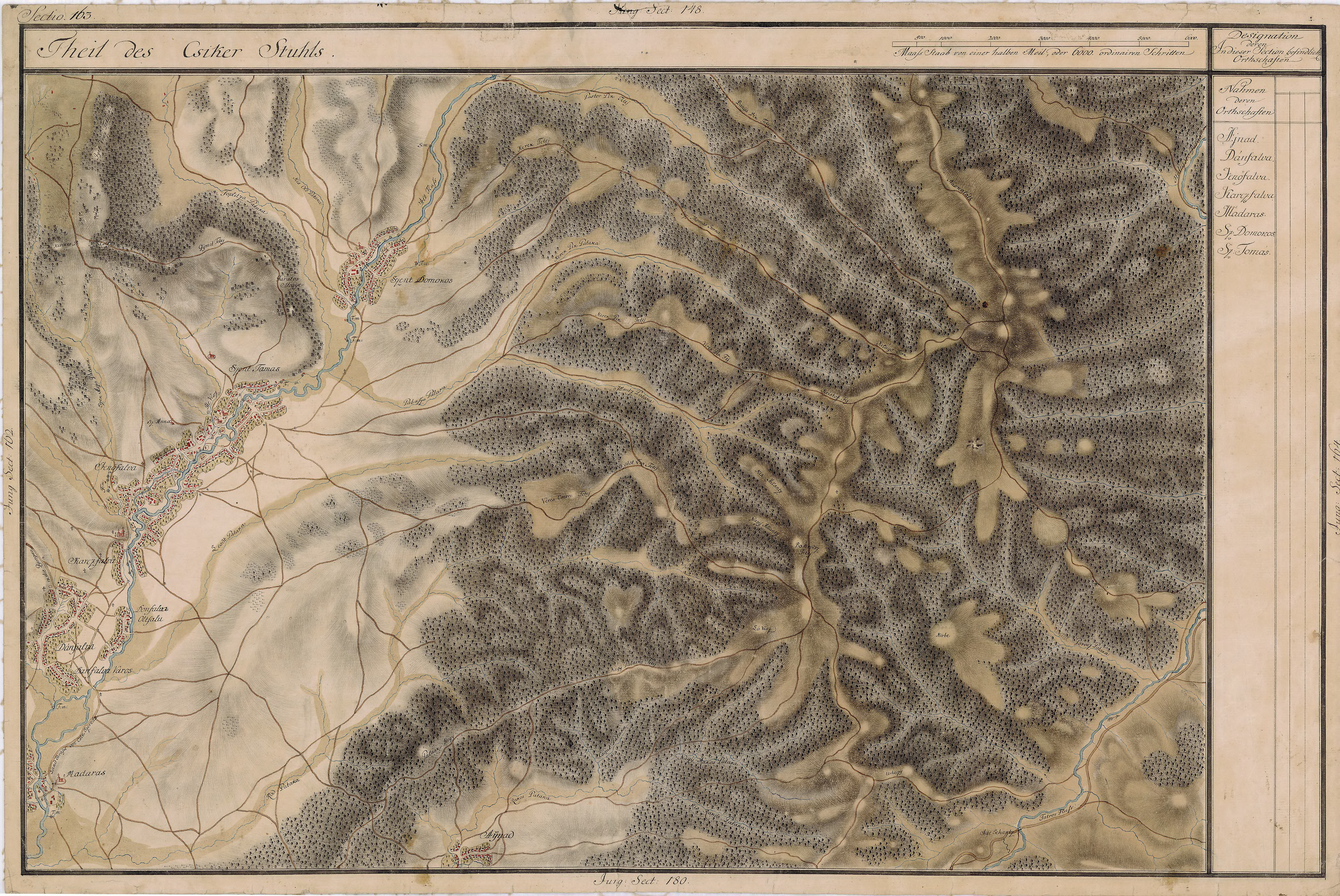 Grand Duchy of Transylvania, 1769-1773. Josephinische Landaufnahme pg.163